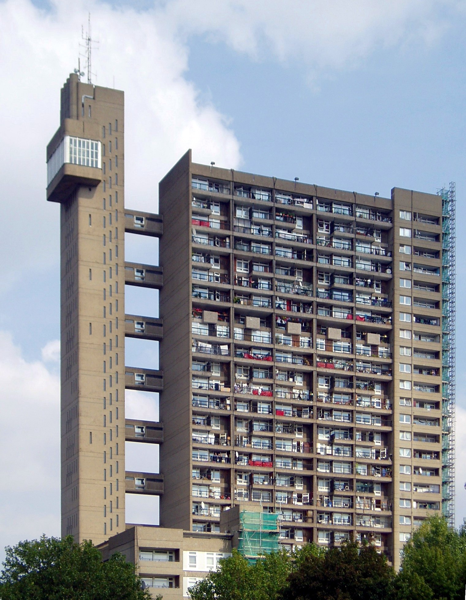 Trellick Tower, London. The Trellick Tower (1972) by Erno Goldfinger and Partners.The title of the image at the source is: The Trellick Tower.This is a modified version (distorted, cropped) of the photograph.